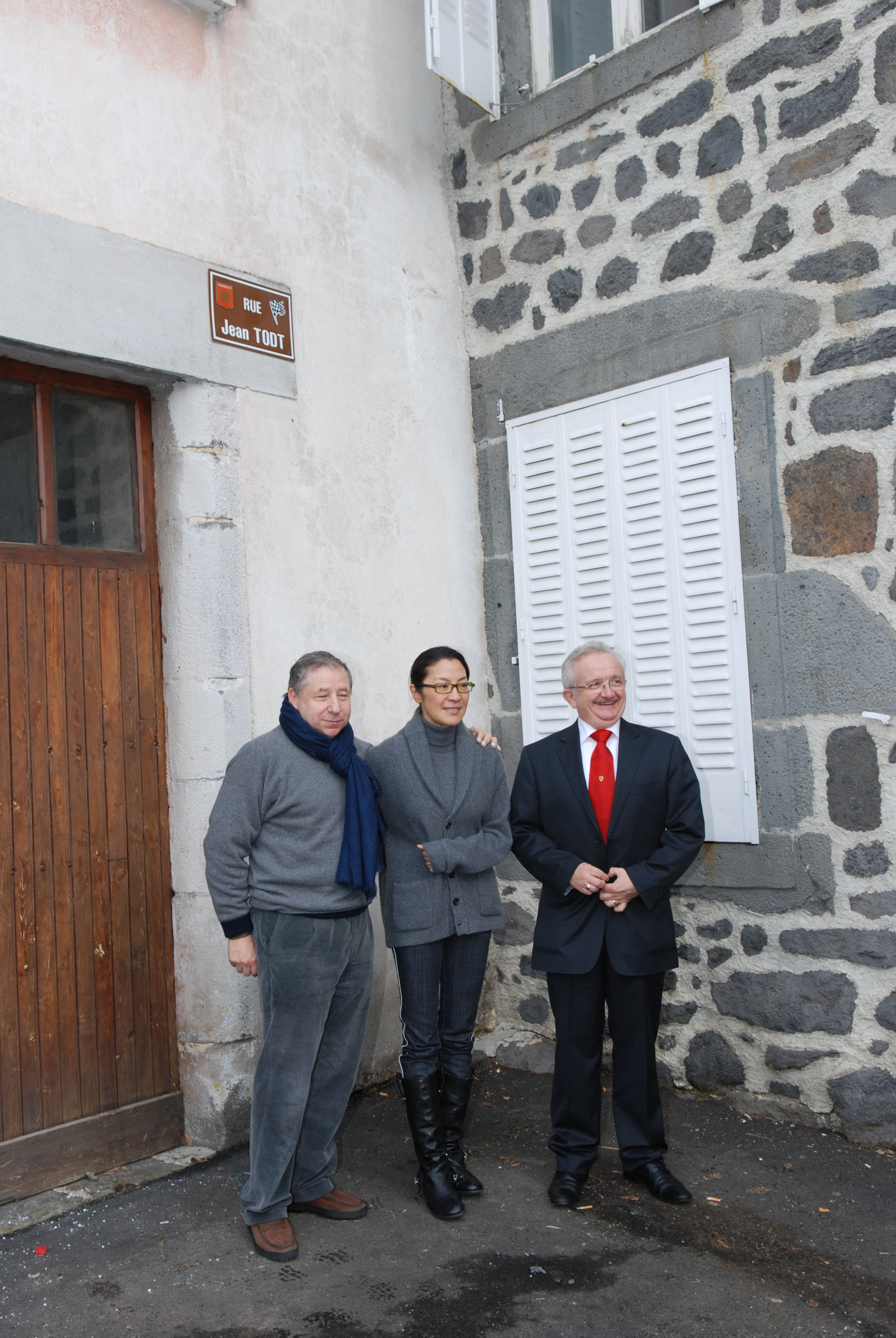 Jean Todt, his wife Michelle Yeoh, and Louis Galtier, the mayor of Pierrefort, in front of the building 15, rue Jean Todt in Pierrefort.